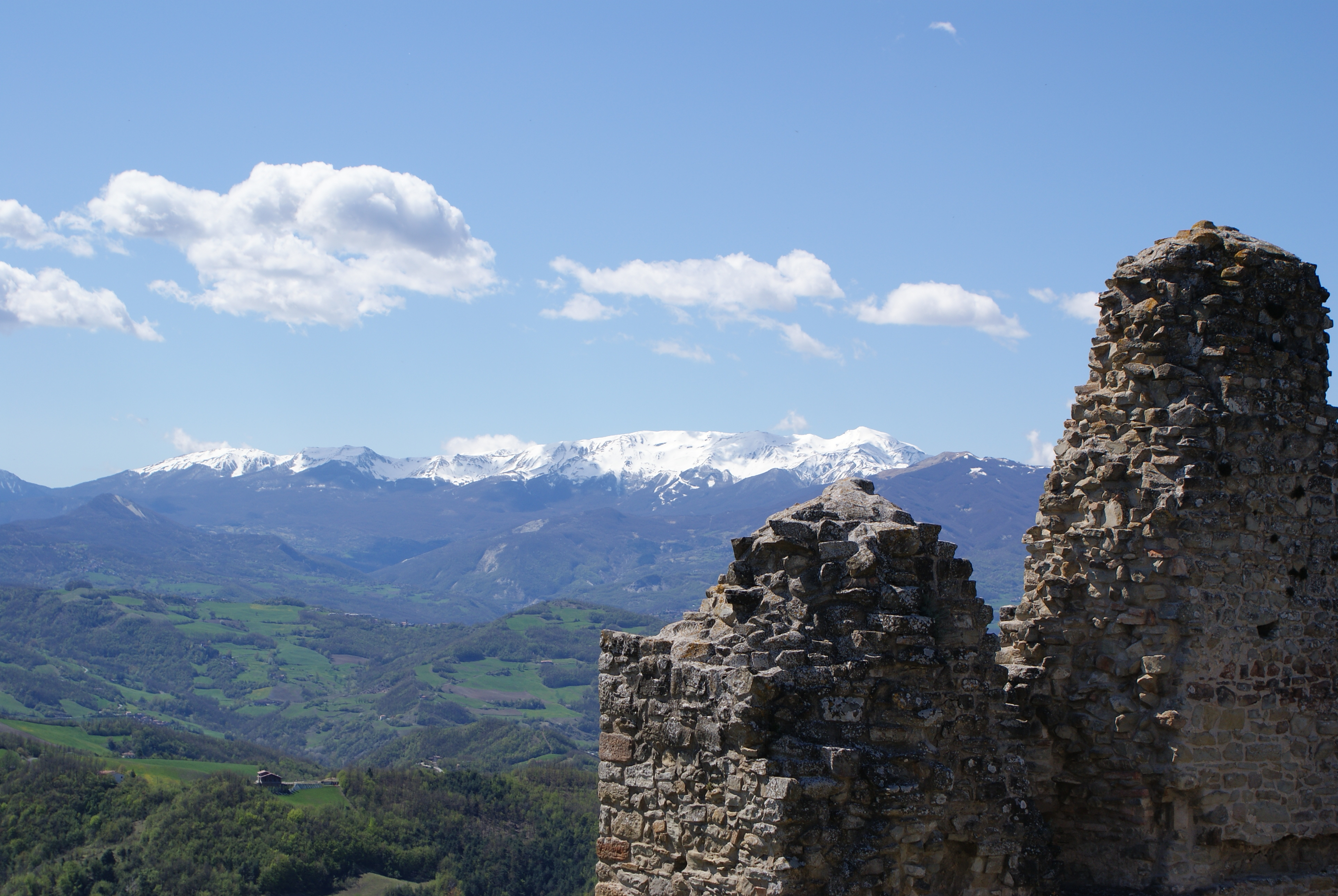 Mount Cusna seen from Carpineti Castle, Province of Reggio Emilia, Italy